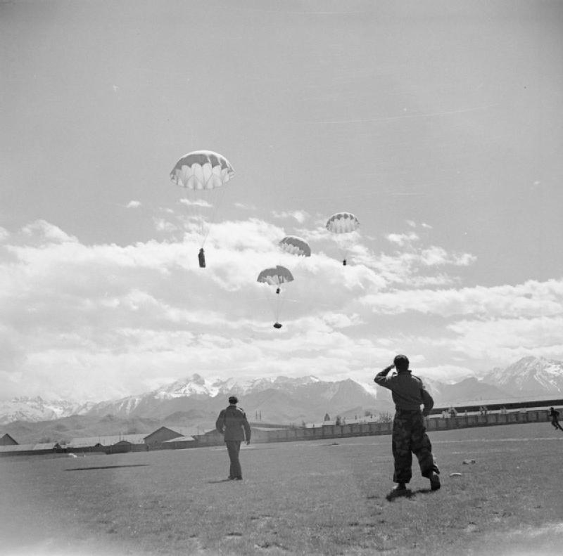 British Aid To Partisans in Northern Italy, April - May 1945 On the field just outside Cuneo, not far from the border between Italy and France, partisans wait for the containers carrying supplies to land. The mountains in the background are the French Alps.